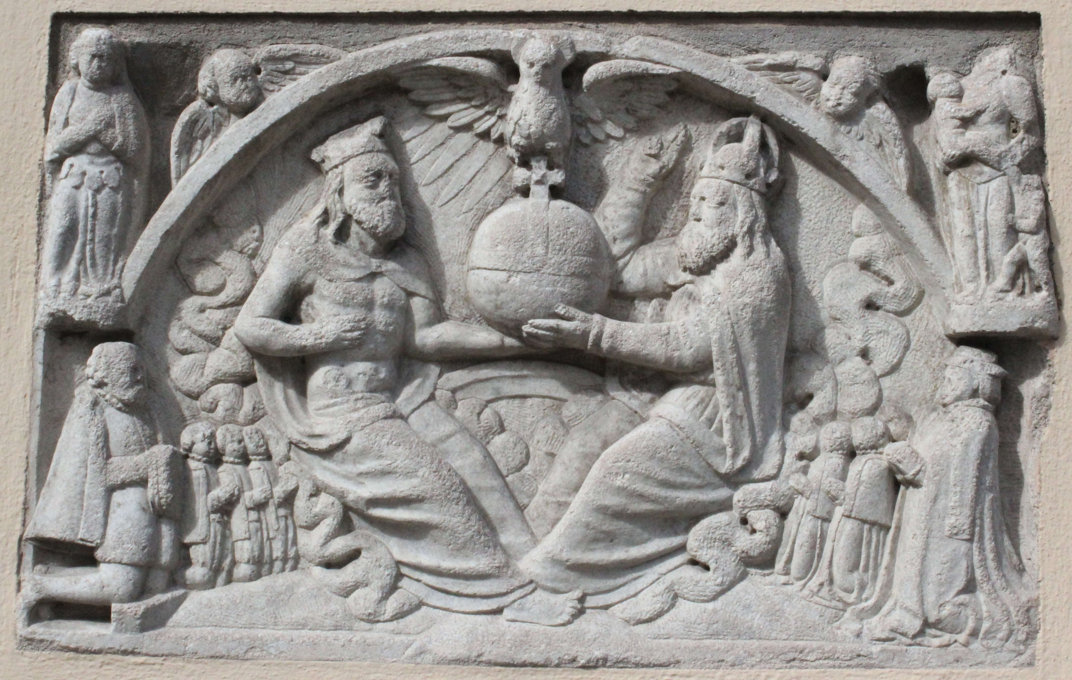 Trinity-church in the community of Wolfsberg - Epitaph